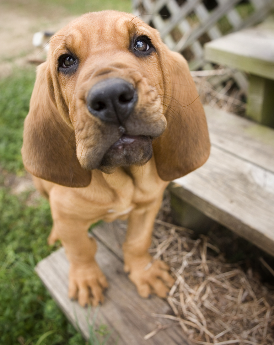 bloodhound Puppy